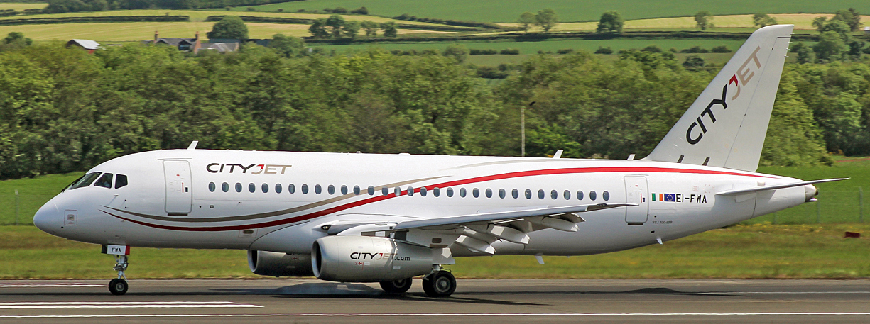 EI-FWA Sukhoi Superjet of CityJet doing a spot of crew training at Prestwick